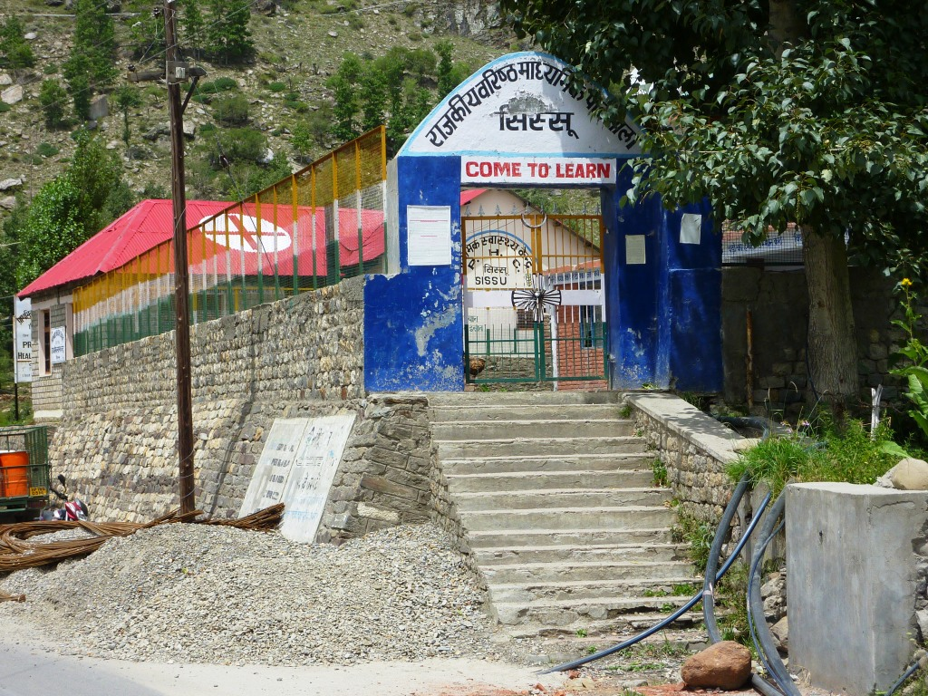 Photo taken on trip through Lahaul and Spiti, 2010